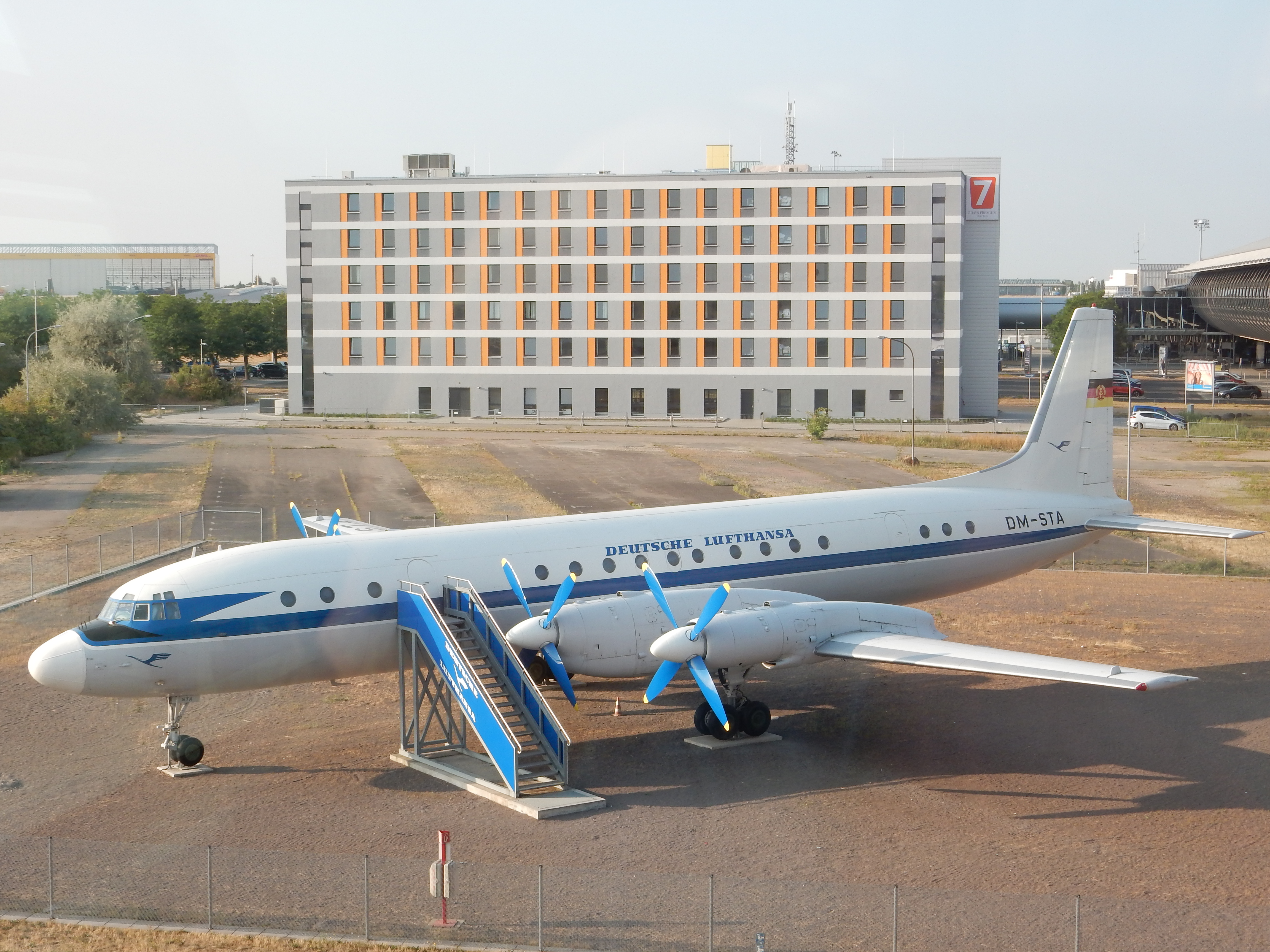 First Ilyushin Il-18 of Deutsche Lufthansa (GDR) in original colours at Airport Halle-Leipzig (LEJ). The plane was in service of Interflug till 1988.